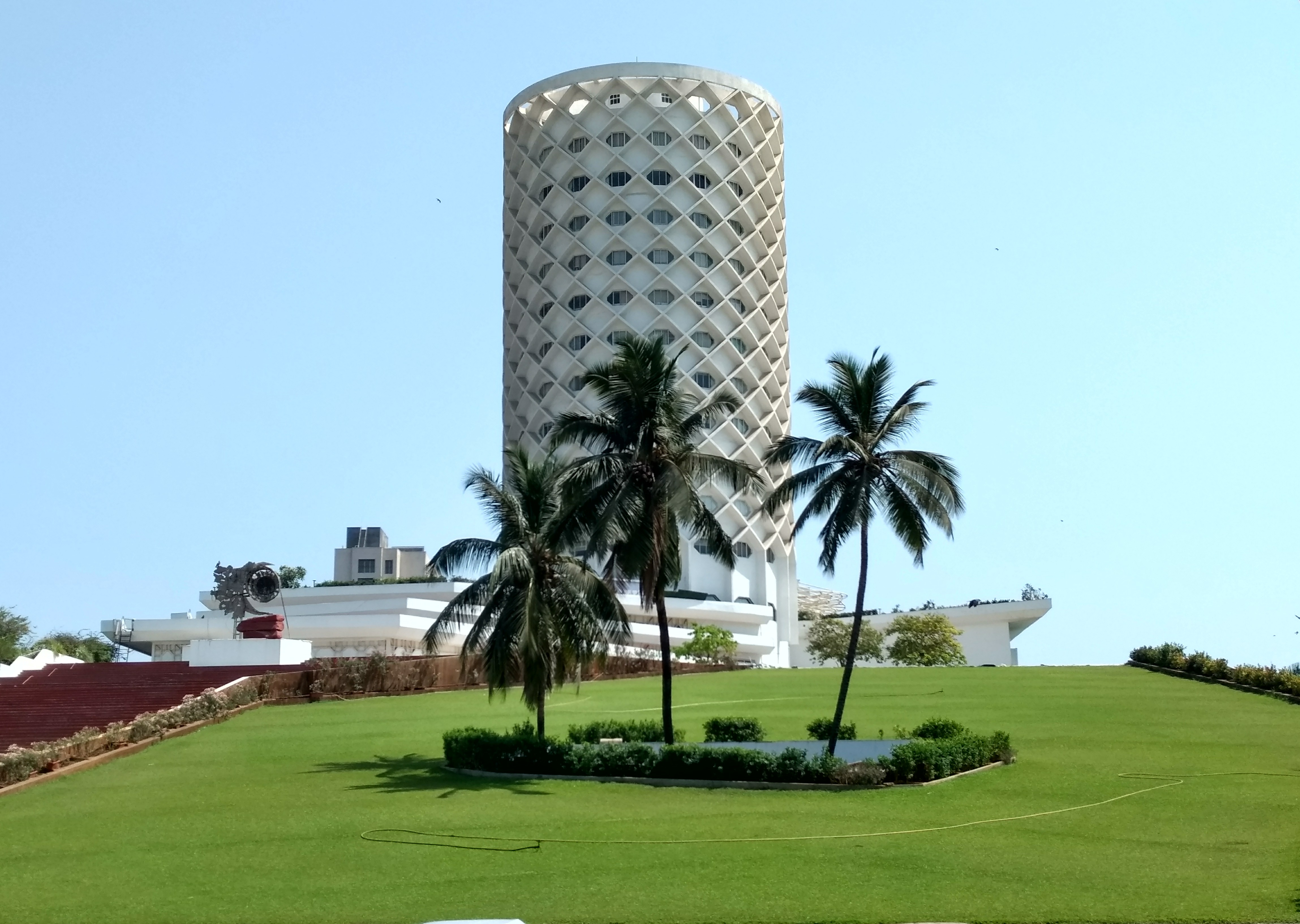 Nehru Centre, Worli, Mumbai